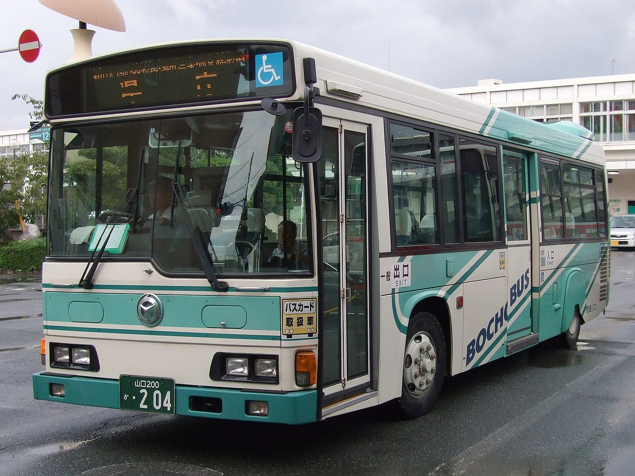 Company:Bocho Kotsu Use:transit bus Car license:山口200 か・204 Chassis manufacturer:Hino Motors Coachbuilder:Hino Body Location:at Shin-Yamaguchi Station, in Yamaguchi City, Yamaguchi, Japan.